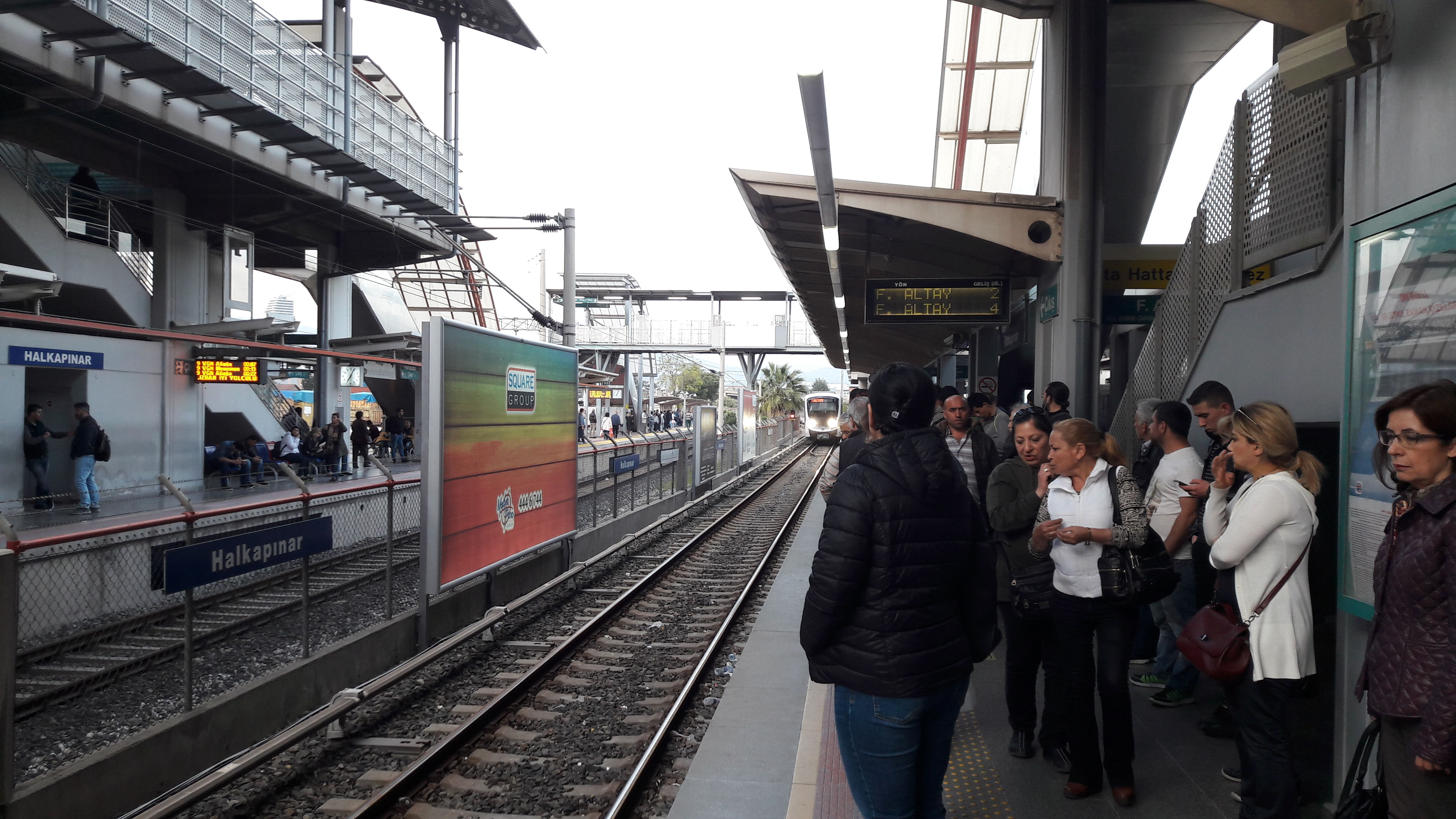 Halkapinar metro station.